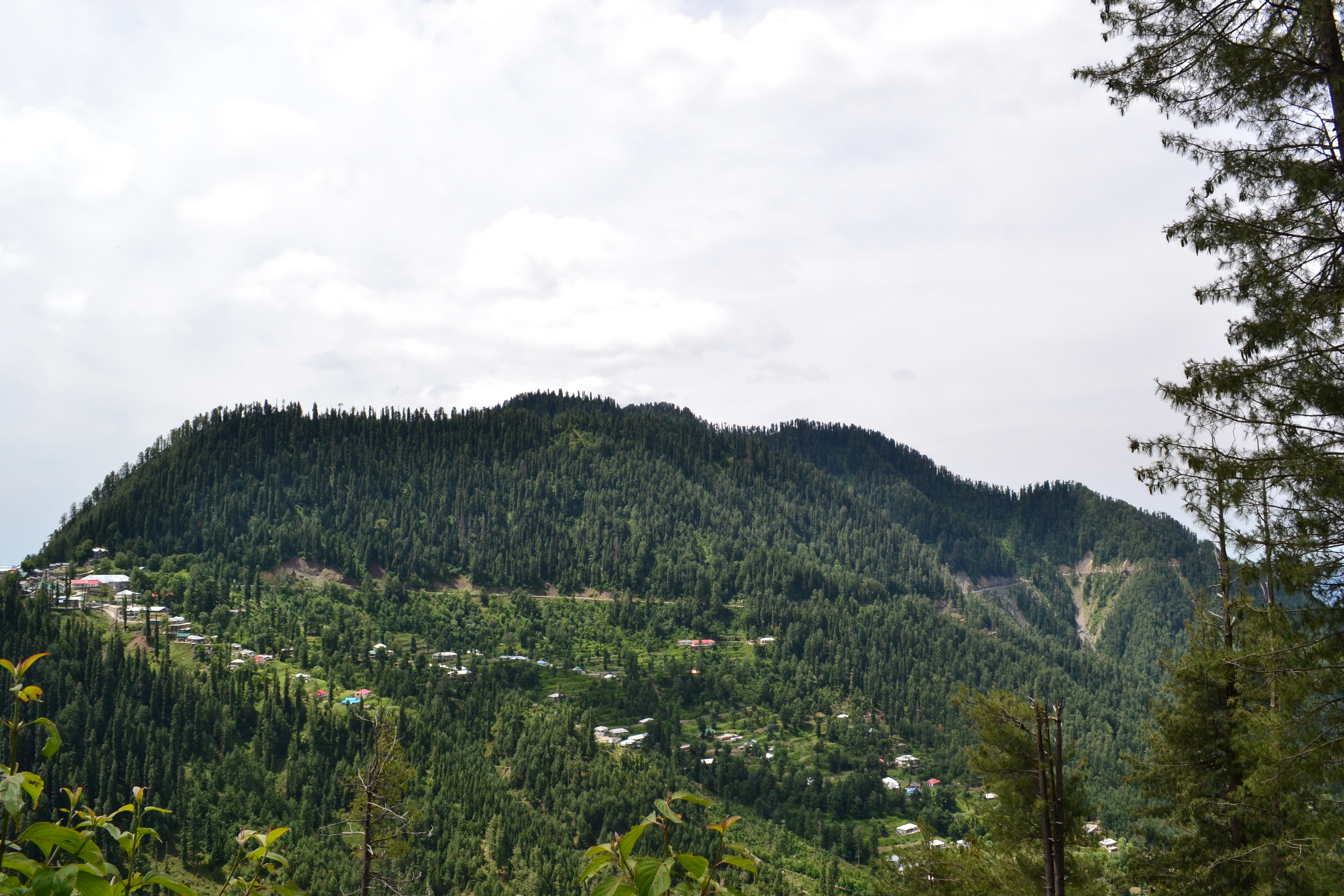 Tilla Donga is an 8000+ feet high mountain beside Donga Gali in Pakistan.